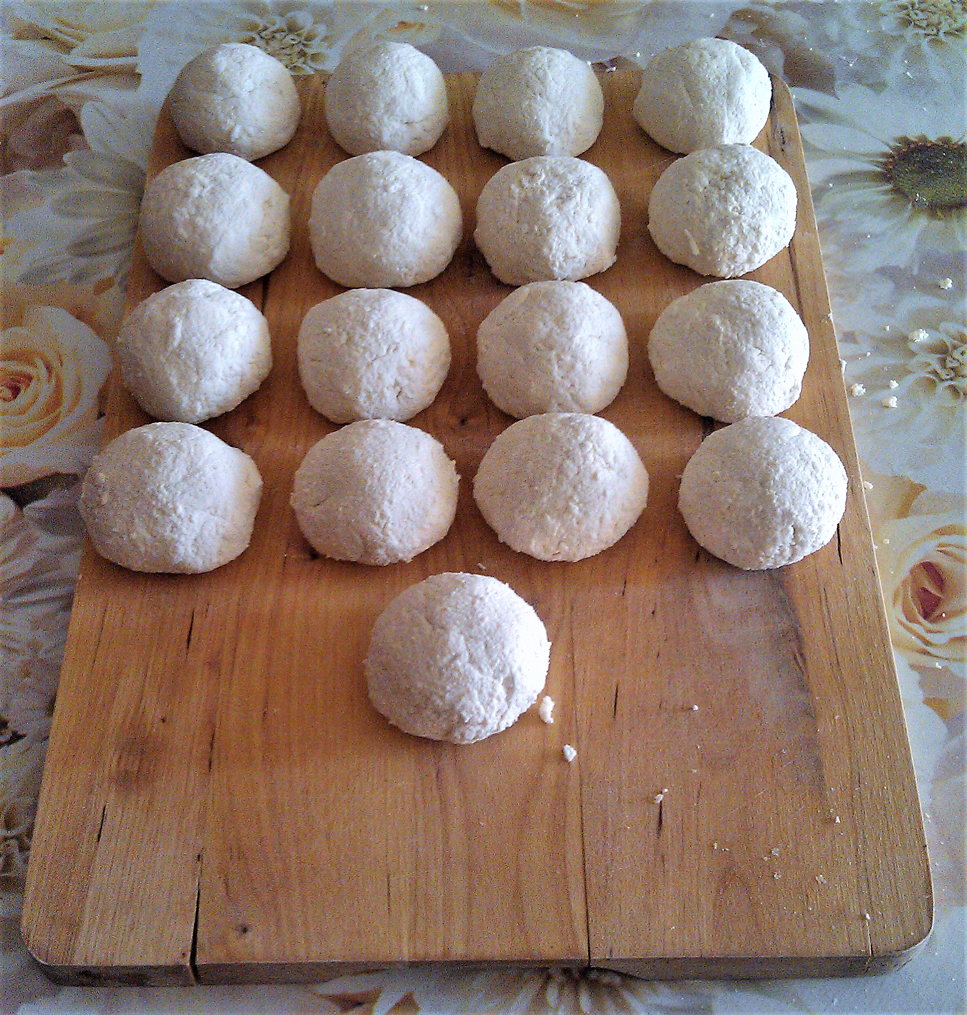 Qurut